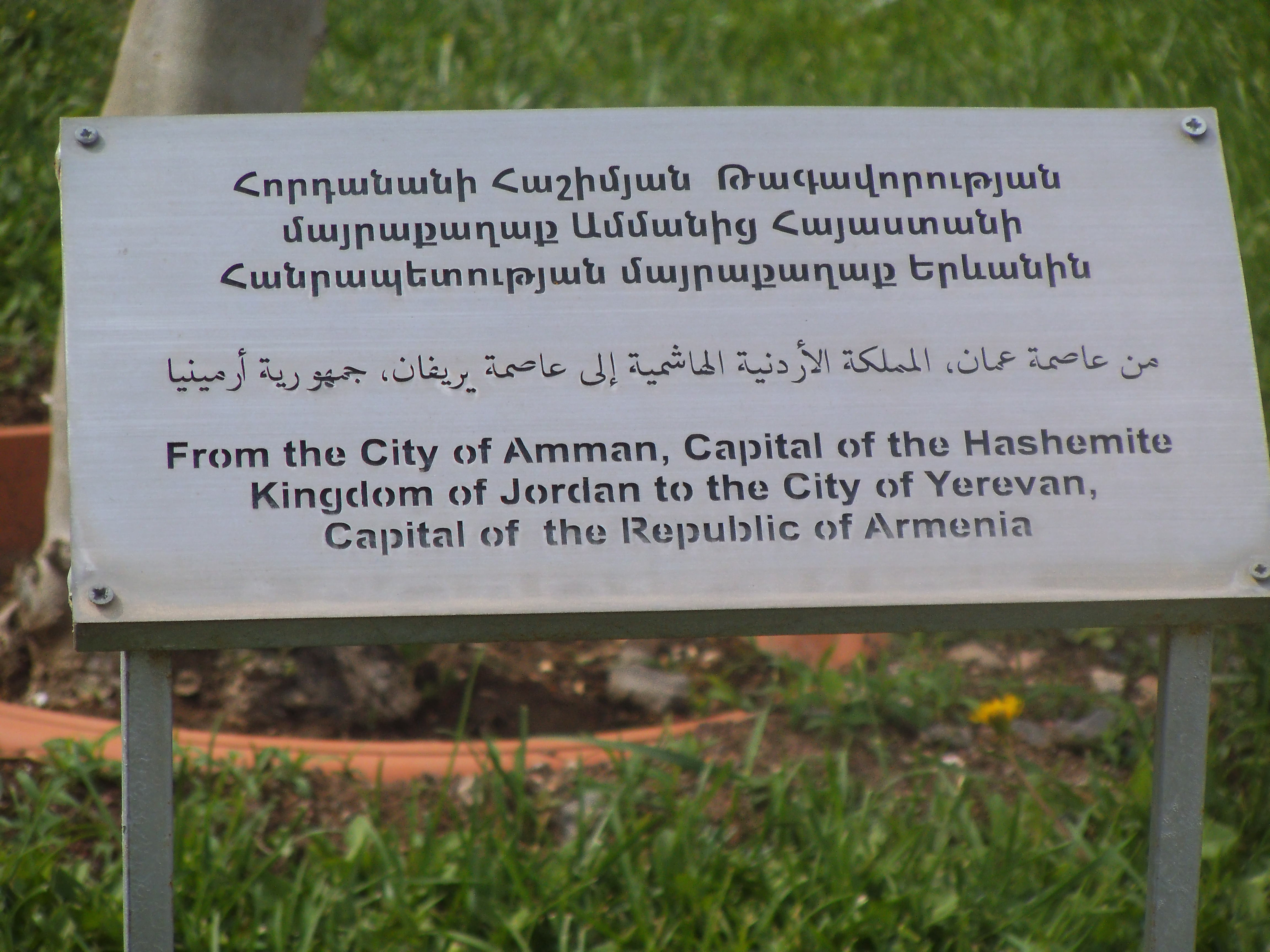 Commemorative plaque from Amman, sister city of Yerevan, for an olive tree, planeted in front of the Yerevan History Museum.